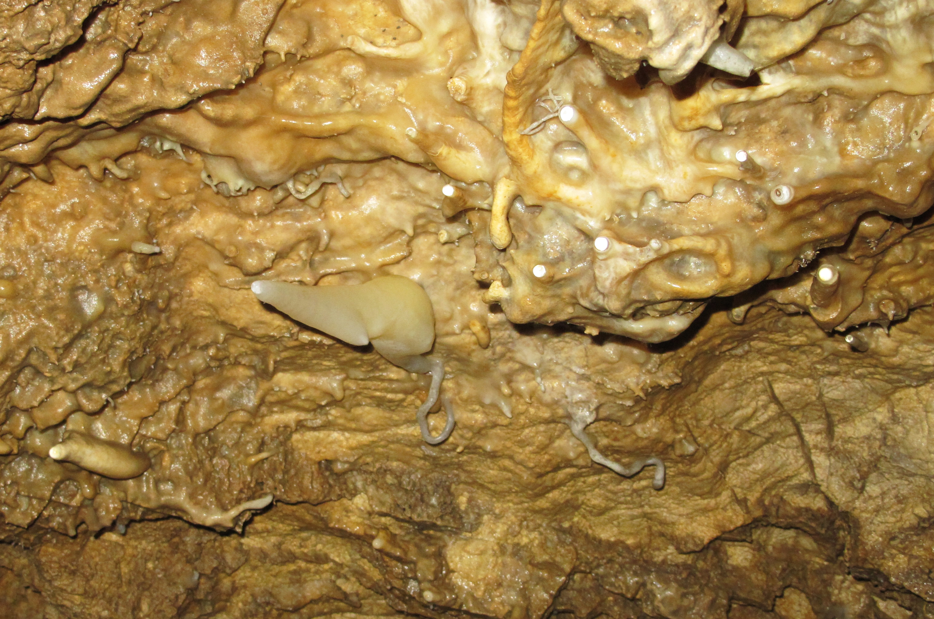 National natural monument Bozkovské dolomitové jeskyně (The Bozkov Dolomite Caves) near Bozkov in Semily District - Czech Republic